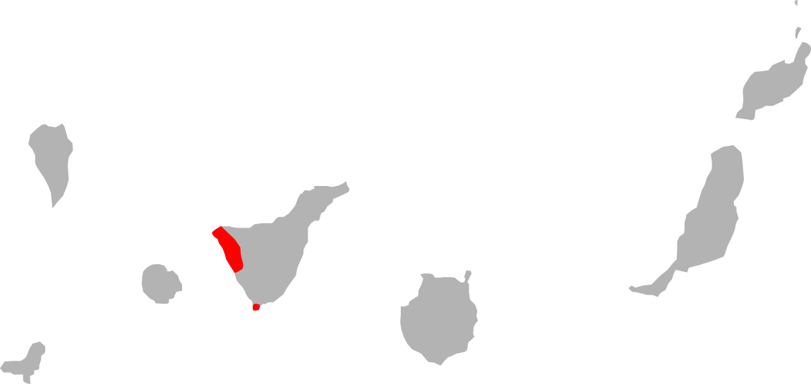 Gallotia intermedia distribution map.